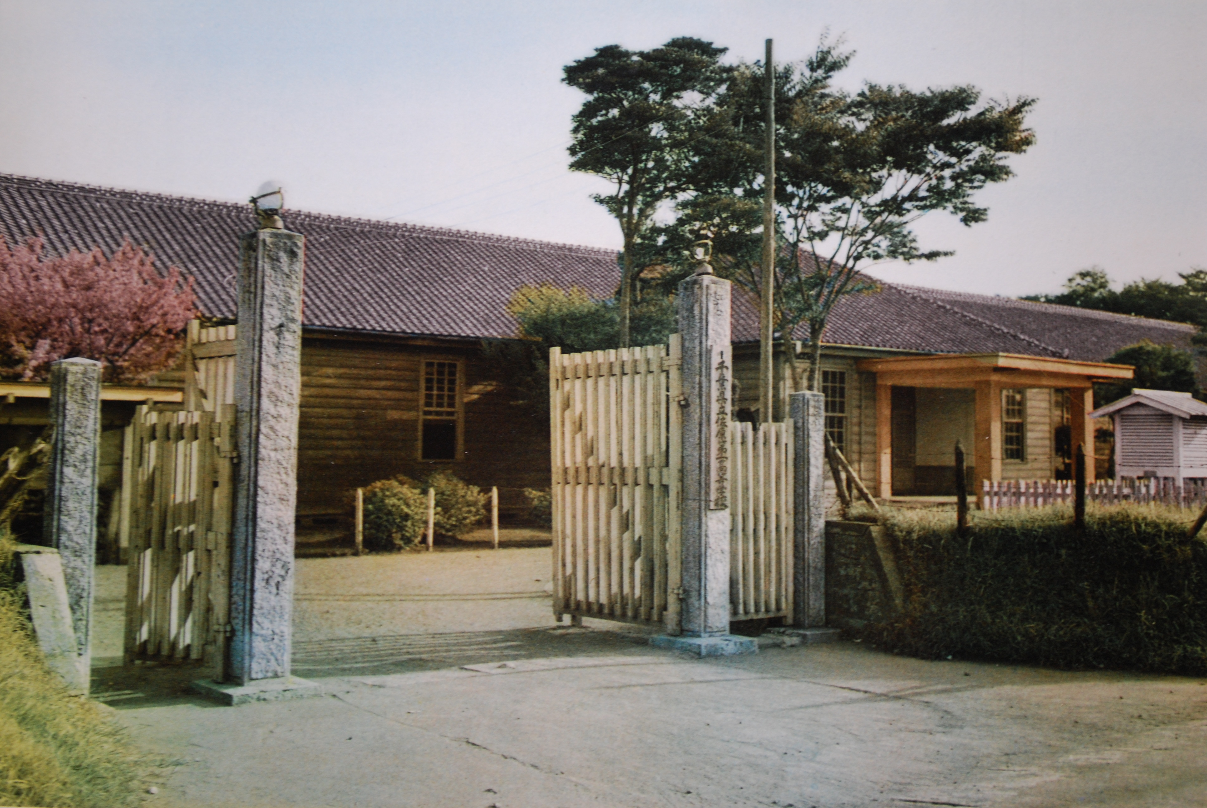 The Sawara Senior High School Entrance about 1958,Sawara-city,Japan